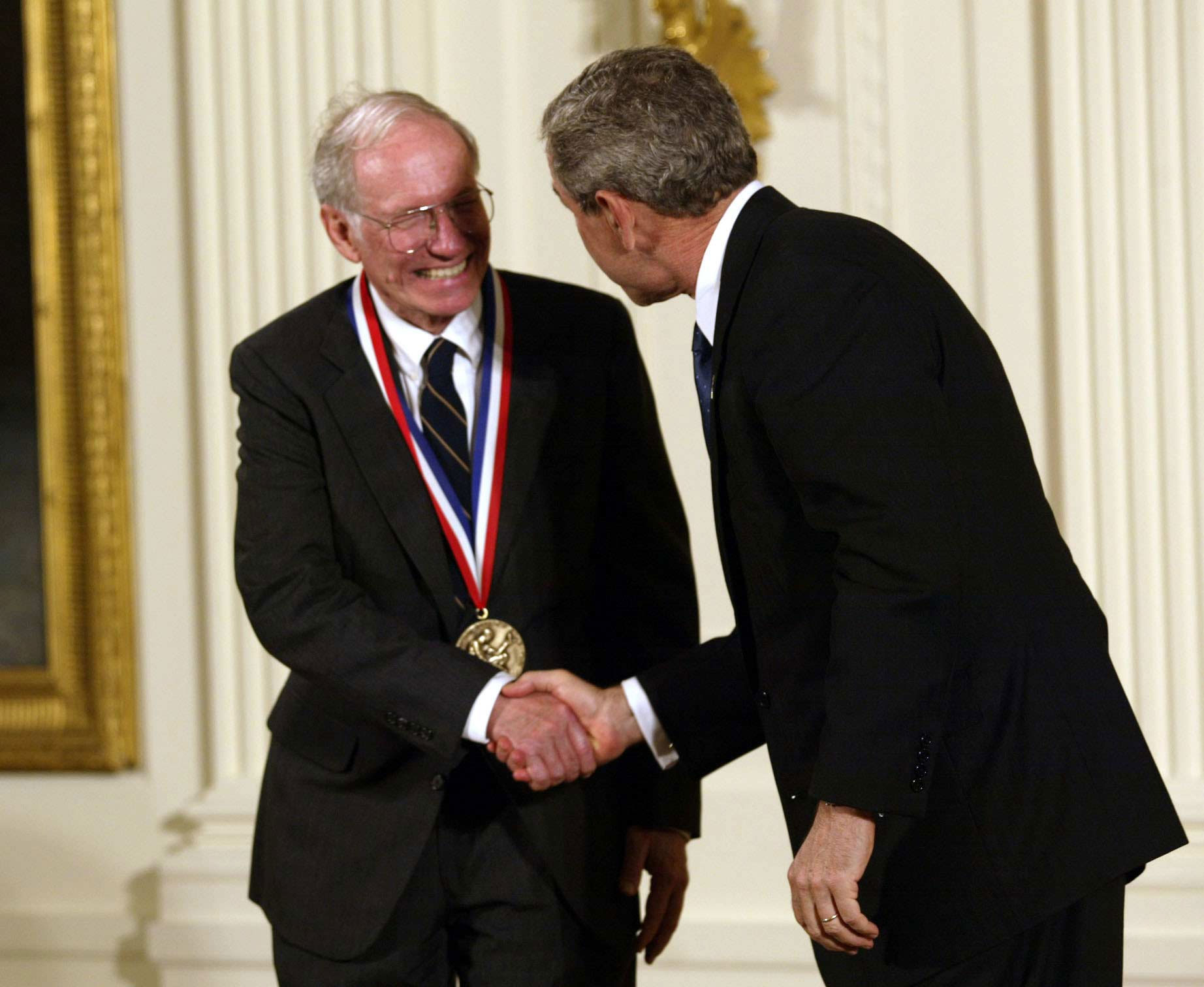 W. Jason Morgan (born 1935); Not copyrighted, work of US Govt agency (National Science Foundation)